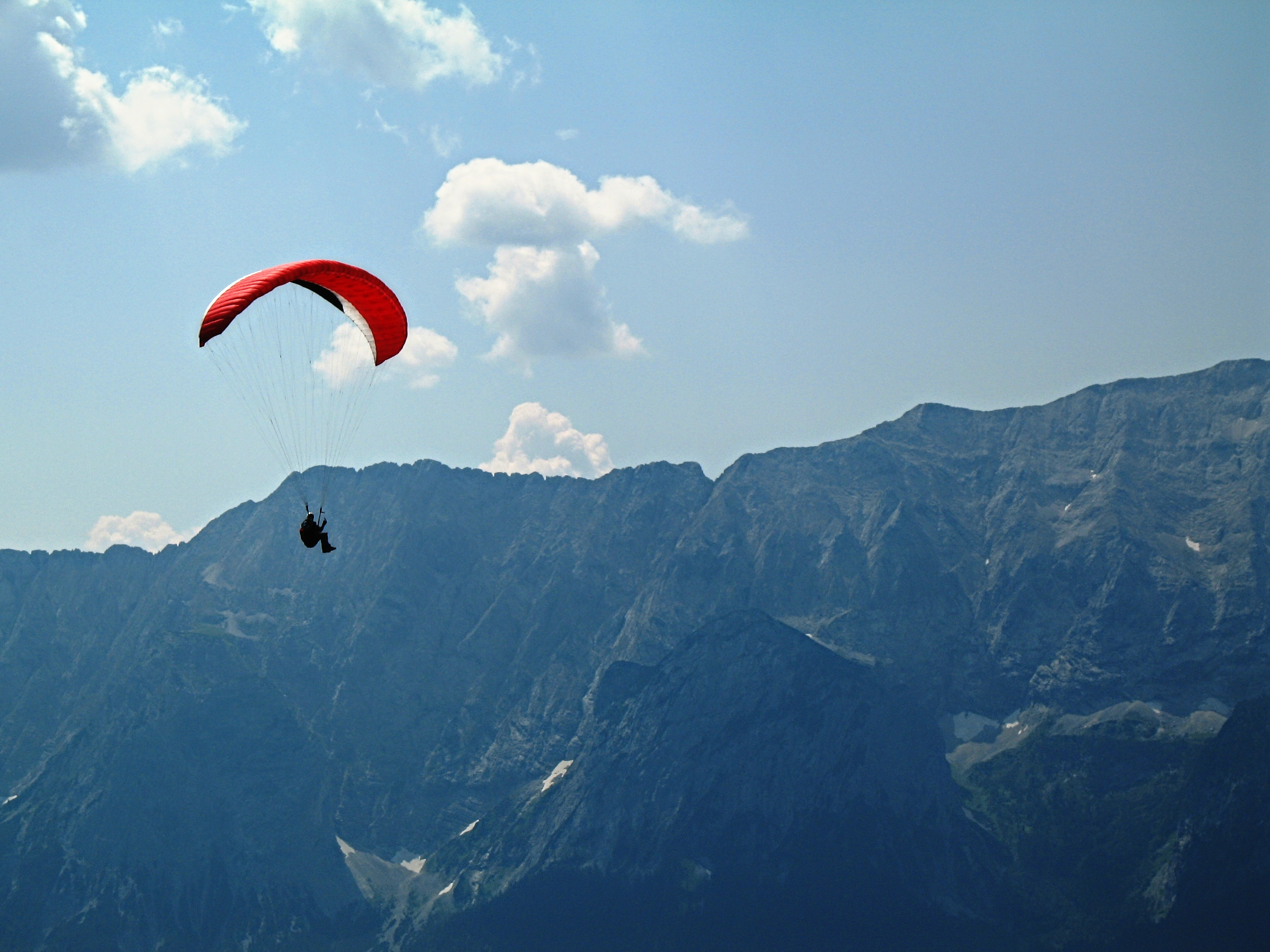 Paraglider in front of Wetterstein mountain range near Garmisch-Partenkirchen